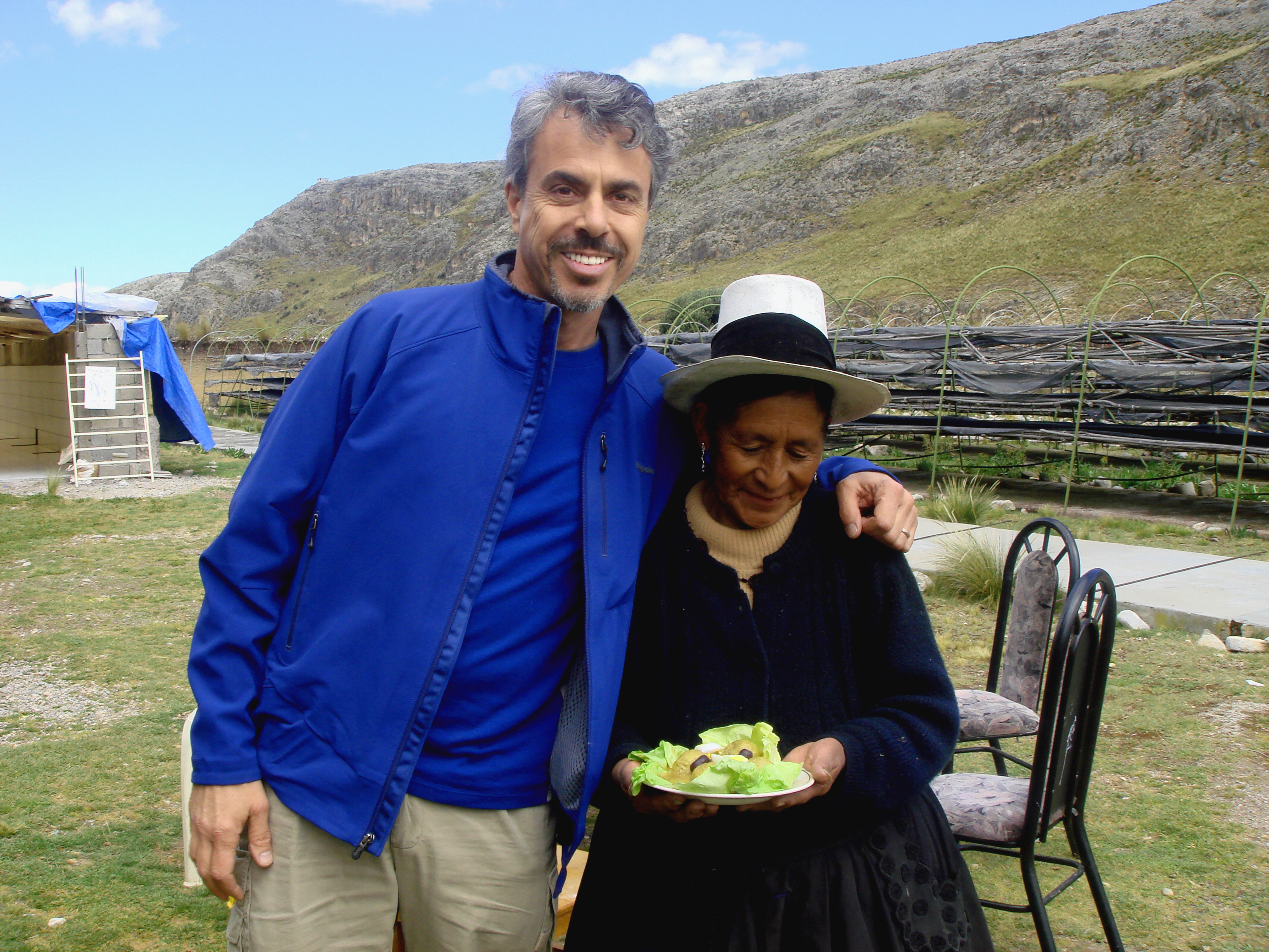 Chris Kilham with Shaman Dona Sophia with Maca (Lepidium meyenii) in the Peruvian Andes. Photo by Zoe Helene